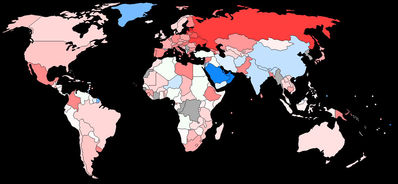 Red, Women / Blue, Men. Sex ratio of the world population, by country. Image:BlankMap-World-v5.png